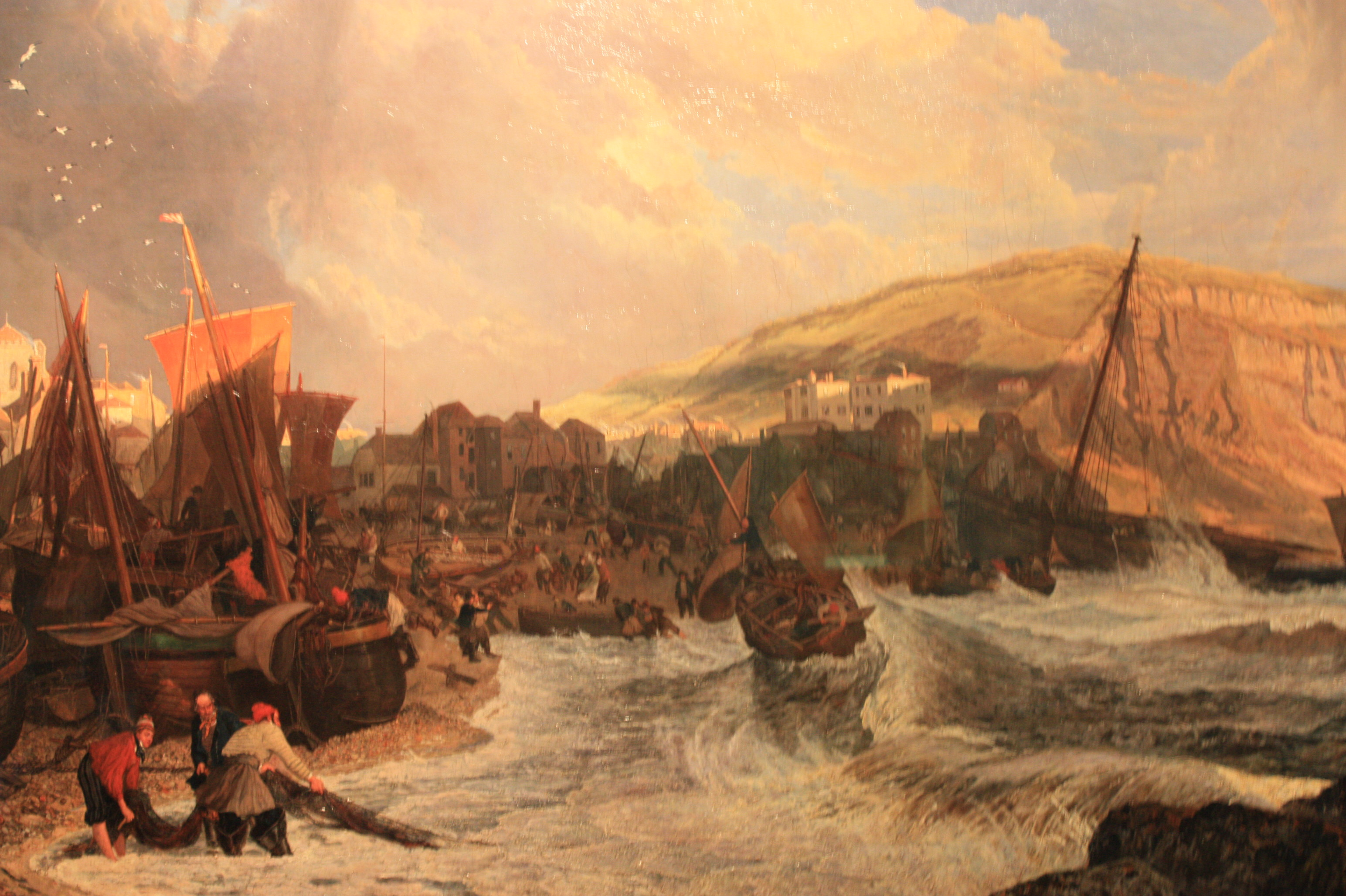 Hastings- Boats making the Shore in a Breeze, by John James Chalon, 1819